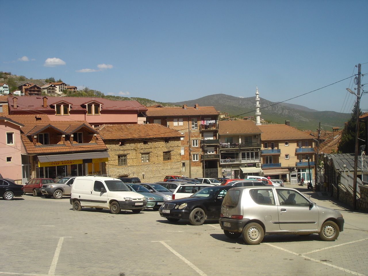 Center of the village of Labuništa, neat Struga, Macedonia